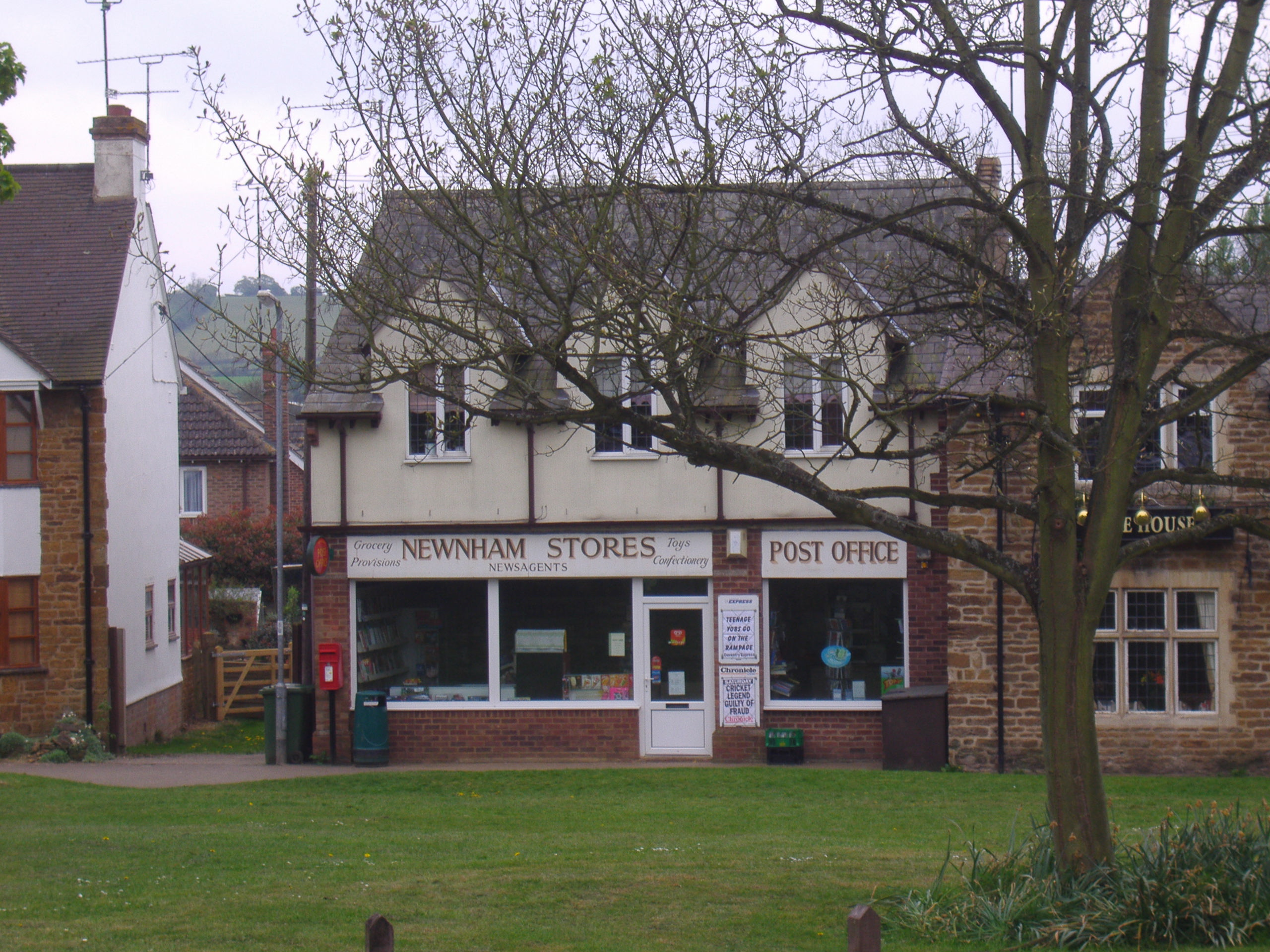 A Digital Photograph of the Post office in Newnham, Northamptonshire